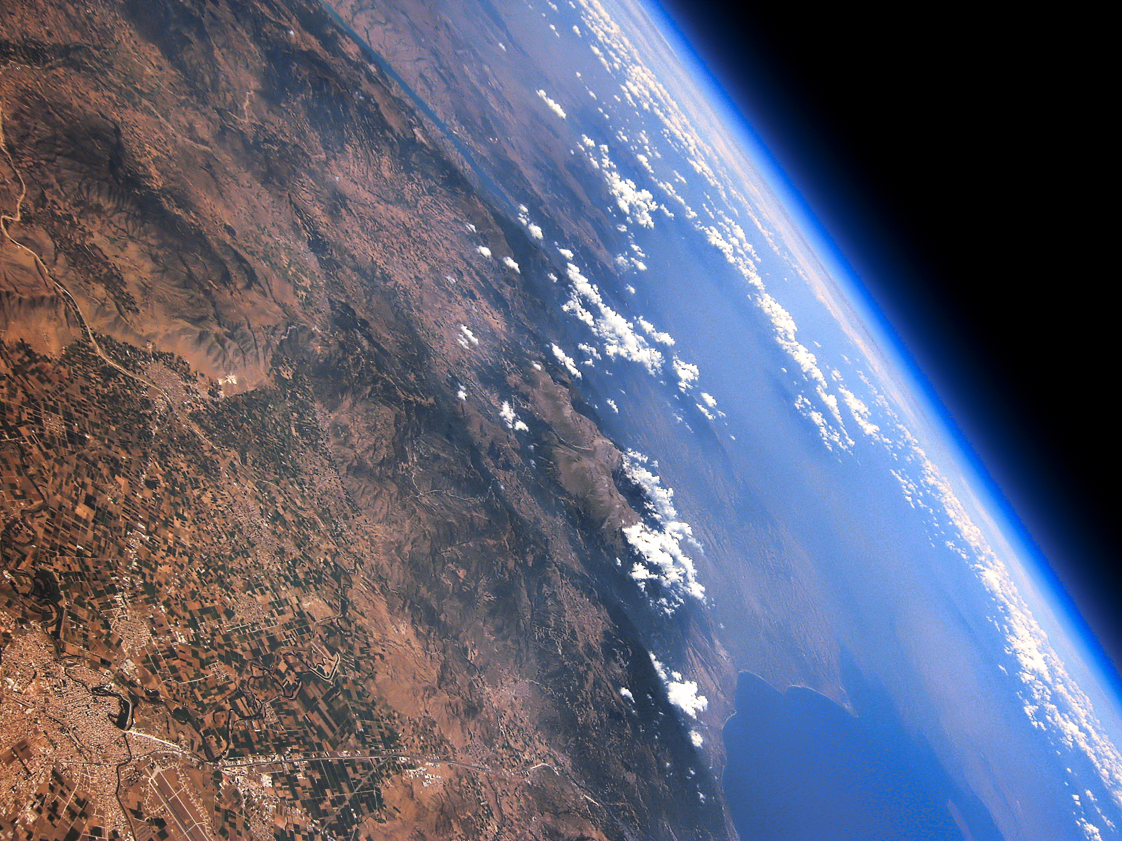 In this picture: The Olympus mountain as seen by the capsule, during its flight in the stratosphere at an altitude of 30000 meters. SlaRos, is the first amateur suborbital project in Greece. Is a multitasking hobby which allows me to explore earth’s sky without the need of enormous budgets and national agencies. It involves physics, extreme conditions, electronics & telecommunications engineering, software development, constructions, photography, high adventure, a lot of risks, problem solving and money spending. The project was honored twice by the NASA's Earth Science and took over 5000 euros and four years for the domestic development of the systems. Stratospheric balloon flights are done by the space agencies from 1950! For more, visit